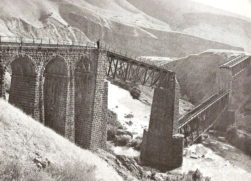 Yarmuk railway bridge on the Jezreel Valley line of Palestine Railways after being sabotaged by Jewish paramilitaries, 17 June 1946